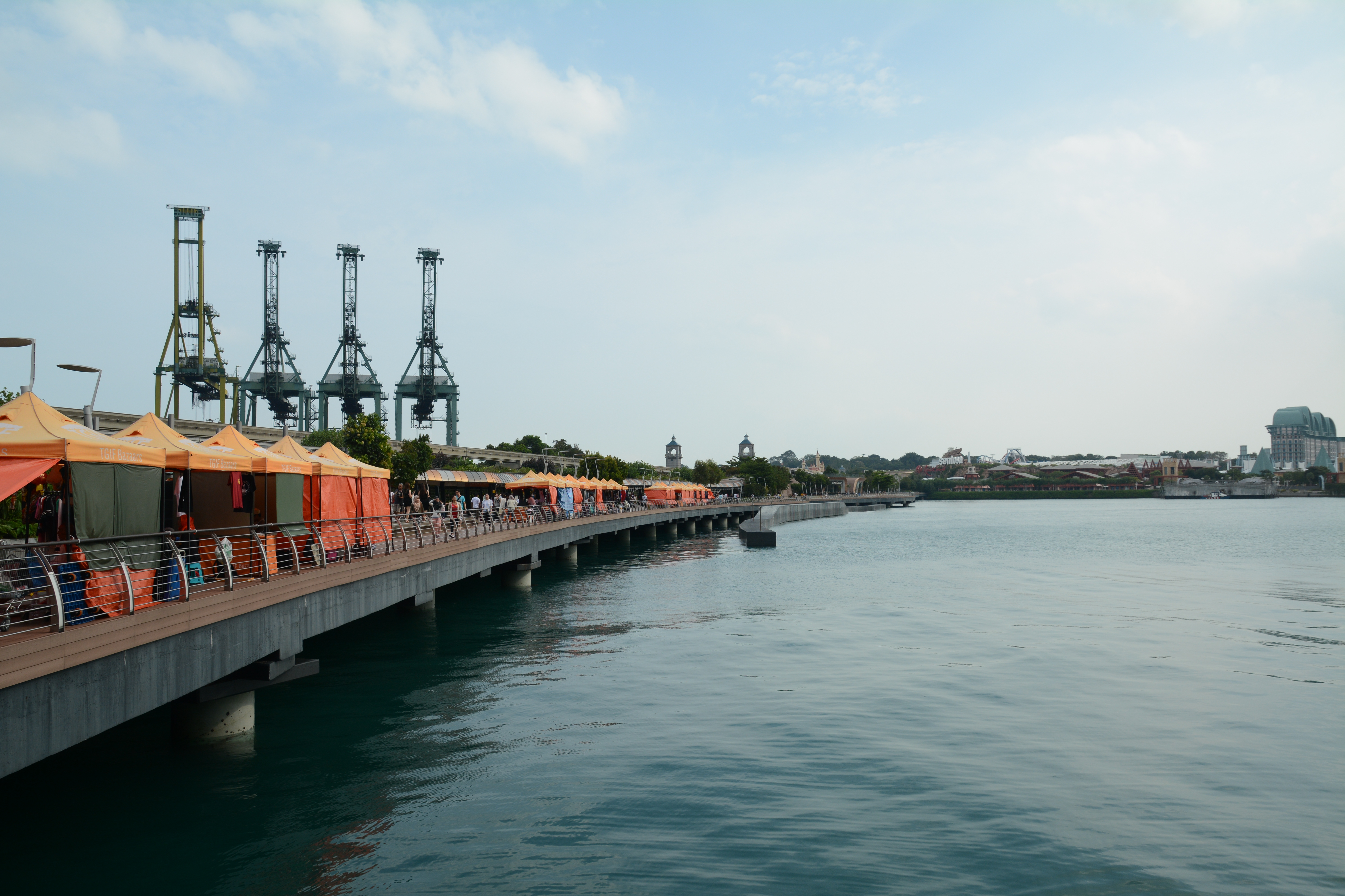 Sentosa Gateway, Singapore.